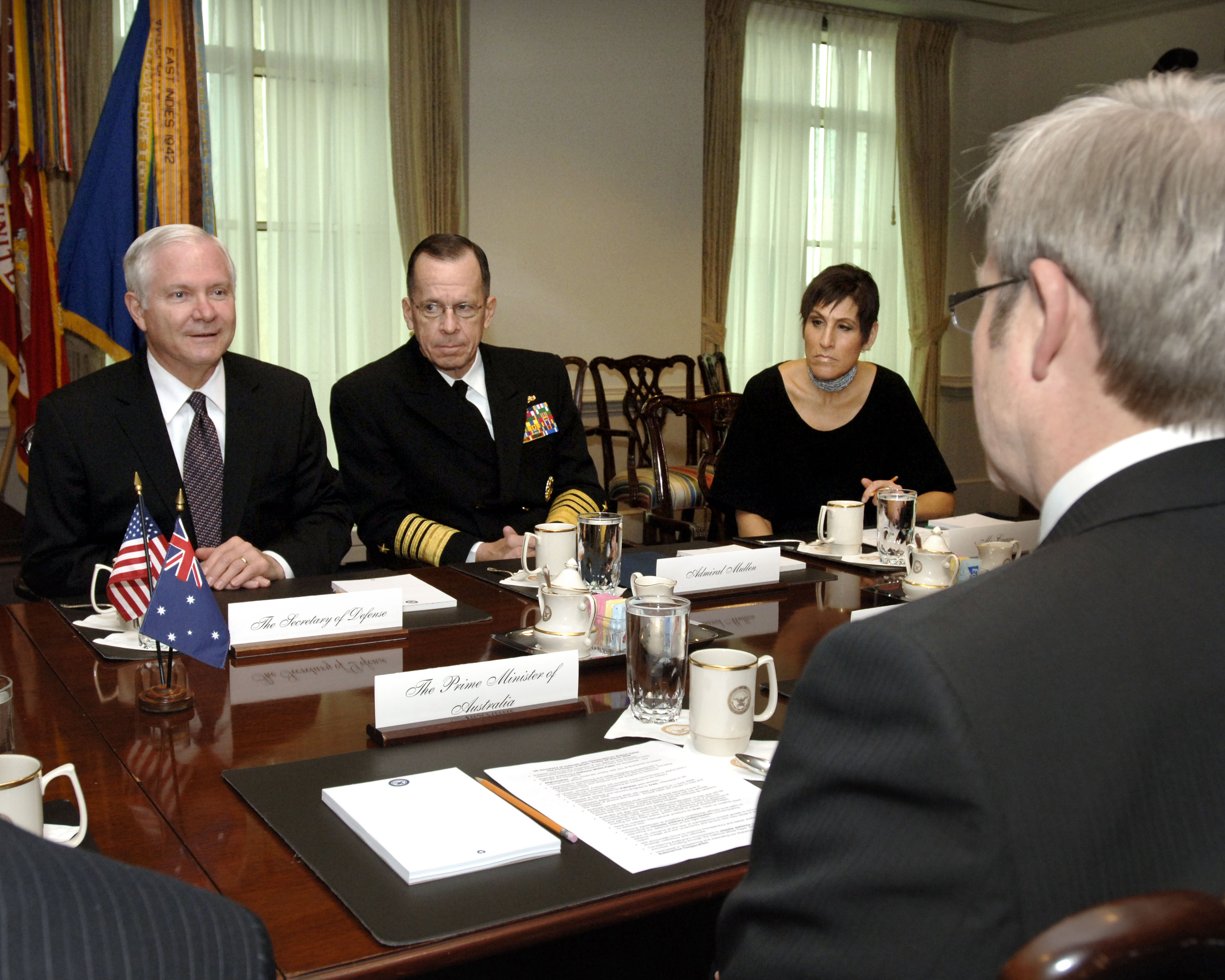 Secretary of Defense Robert M. Gates (left) hosts security talks in the Pentagon with Australian Prime Minister Kevin Rudd (right) on March 28, 2008. Among those participating in the meeting are Chairman of the Joint Chiefs of Staff Adm. Mike Mullen (2nd from left), U.S. Navy, and Acting Deputy Assistant Secretary of Defense for Coalition Affairs Debra Cagan.